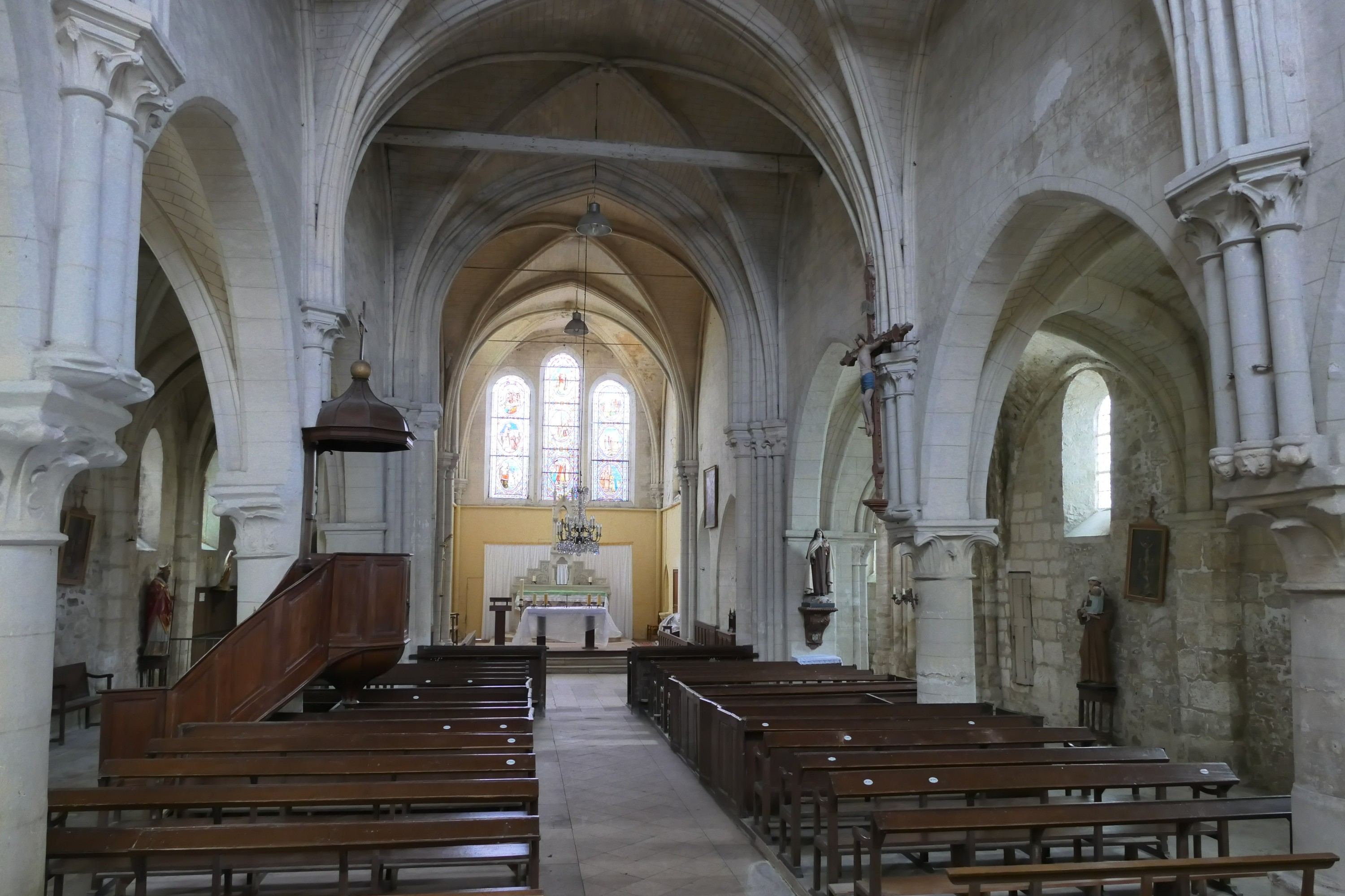 Saint-Denis' church in Ver-sur-Launette (Oise, Picardie, France).